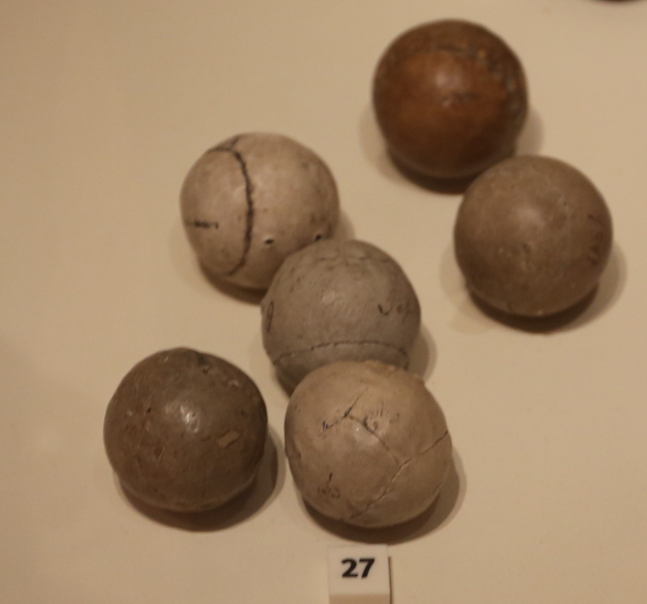 Photo of 6 Featherie golf balls